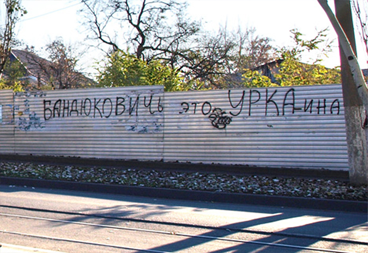 Anti-presidential inscriptions in Luhansk